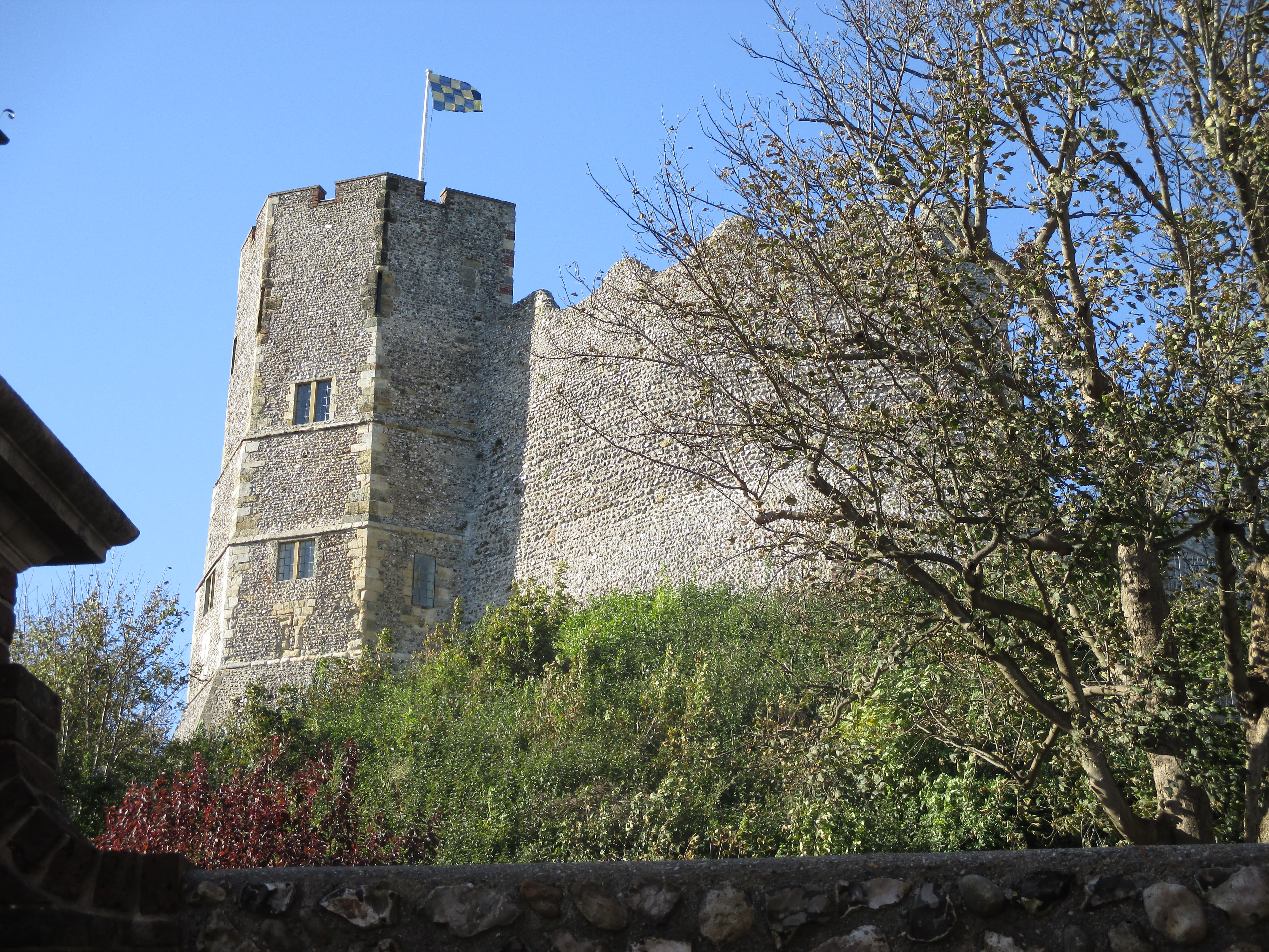 Lewes Castle, West Sussex, photographed from the east.